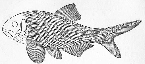 Amblypterus macropterus